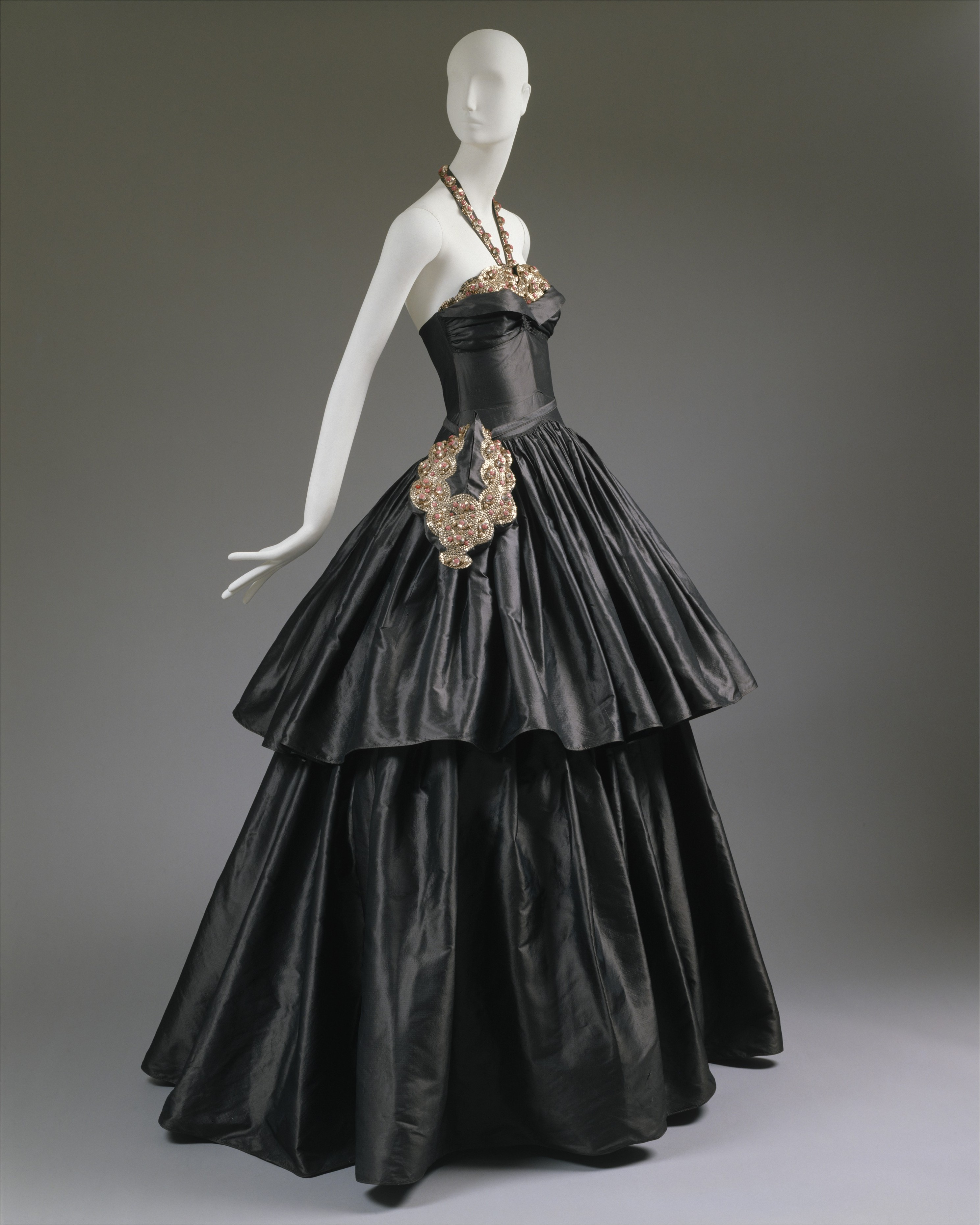 This "Cyclone" evening dress by Jeanne Lanvin was worn by her daughter the Comtesse Jean de Polignac. According to Bettina Ballard, she was a "soft beauty" who belonged more to the intimacy of the private salon than to public places of entertainment. This spectacular creation of Lanvin's was featured in the 2002–2003 exhibition "Blithe Spirit: The Windsor Set," and had not been shown in New York since its debut in 1940.